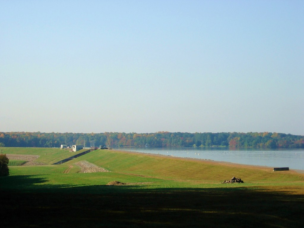 The North Anna Dam which creates Lake Anna in Virginia.